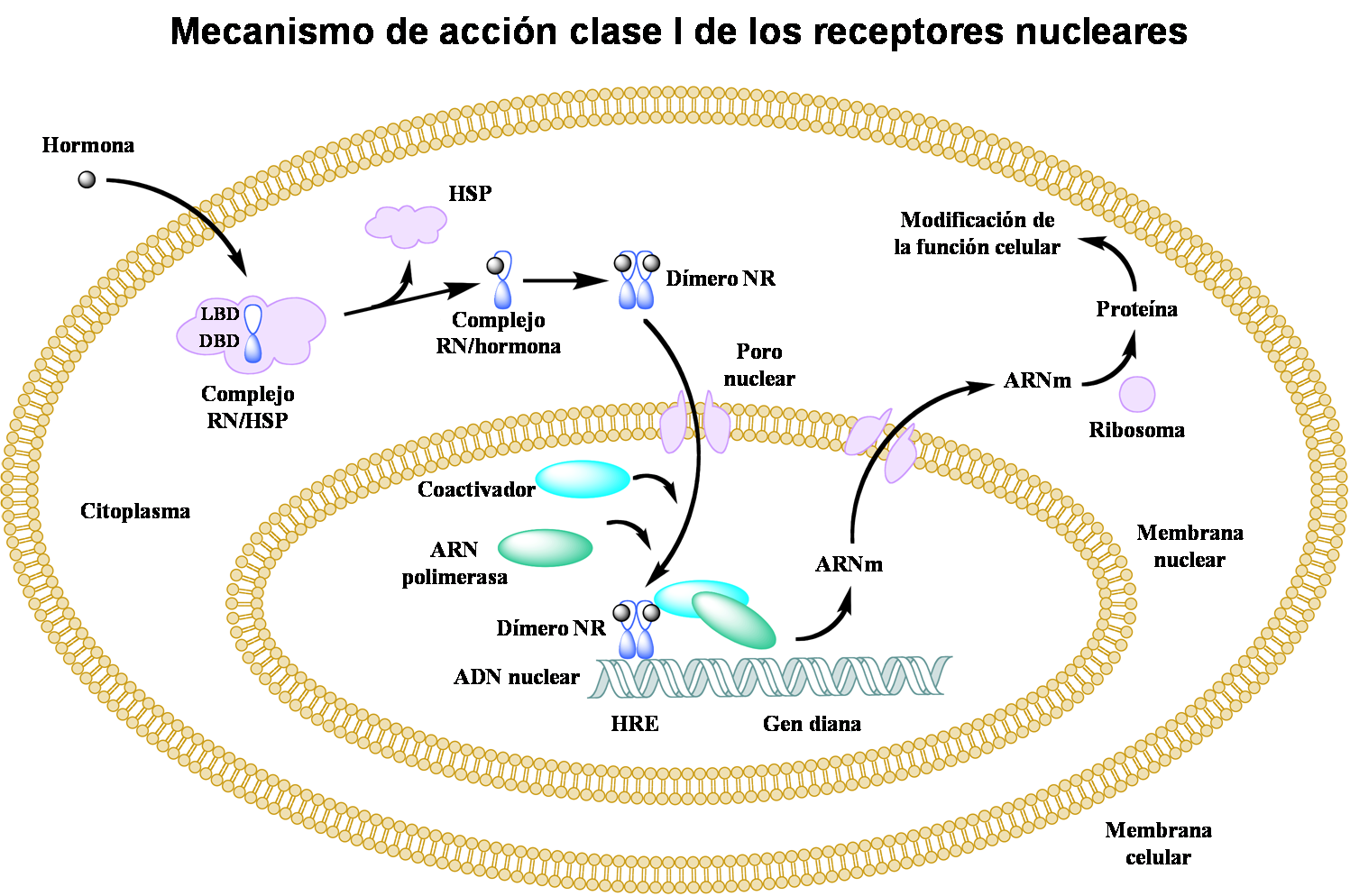 Created myself using CambridgeSoft BioDraw.Boghog2 10:14, 9 June 2007 (UTC) Mechanism nuclear receptor action. This figure depicts the mechanism of a class I nuclear receptor (NR) which, in the absence of ligand, is located in the cytosol. Hormone binding triggers dissociation of heat shock proteins (HSP), dimerization, and translocation to the nucleus where it binds to a specific sequence of DNA known as a hormone response element (HRE). The nuclear receptor DNA complex in turn recruits other proteins that are responsible for translation of downstream DNA into RNA and eventually protein which results in a change in cell function